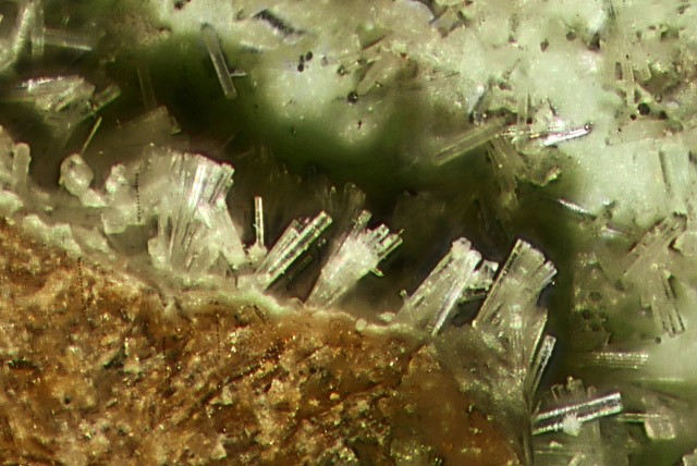 Erionite and Offretite (FOV: 1.6 x 1.0 mm) Locality: Malpais Hill (Malpais Hill south cut), Dudleyville, Pinal County, Arizona, USA Original description: According to Tschernich (Zeolites of the World p. 164) the “erionite” at this locality is intergrown in a complex manner with offretite. The cavity lining is celadonite with montmorillonite.